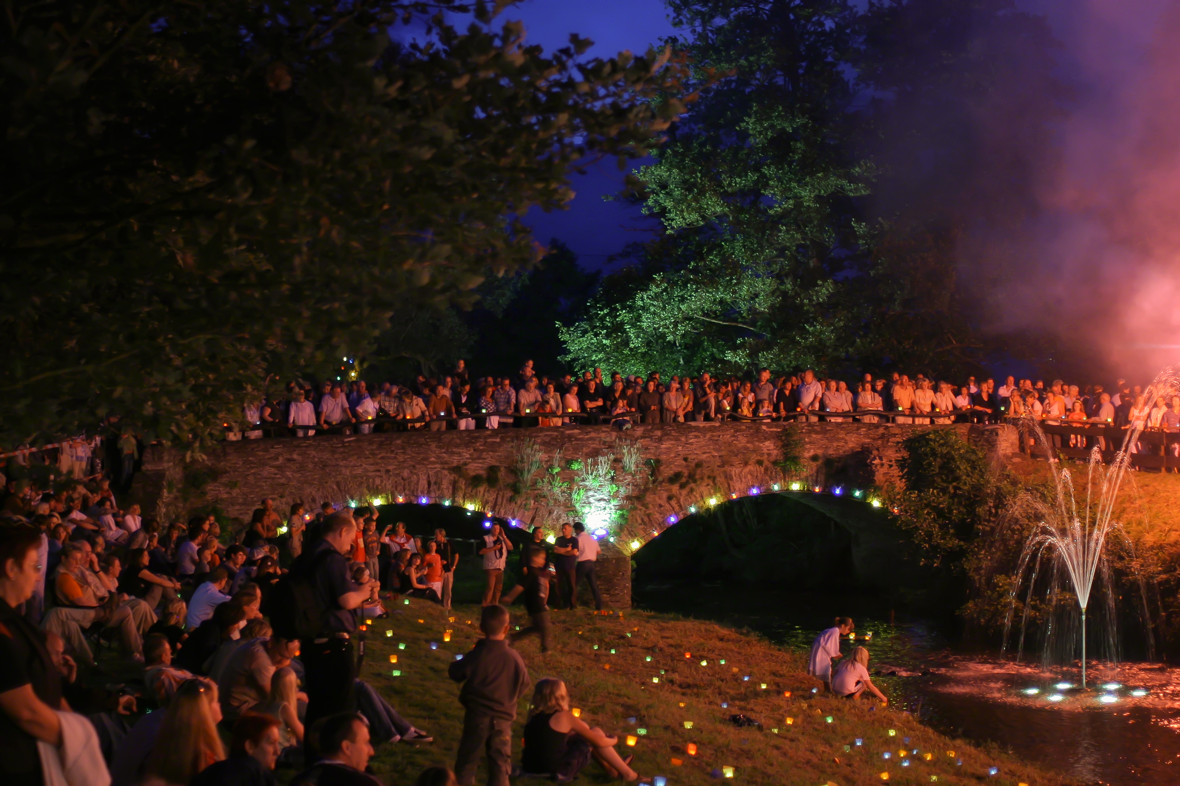 Fireworks audience during the 'Brückenfest '(“Bridge Festival”) in Limbach in the Westerwald. The anual festival takes place each july in honor of the local stone arch bridge from 1871.